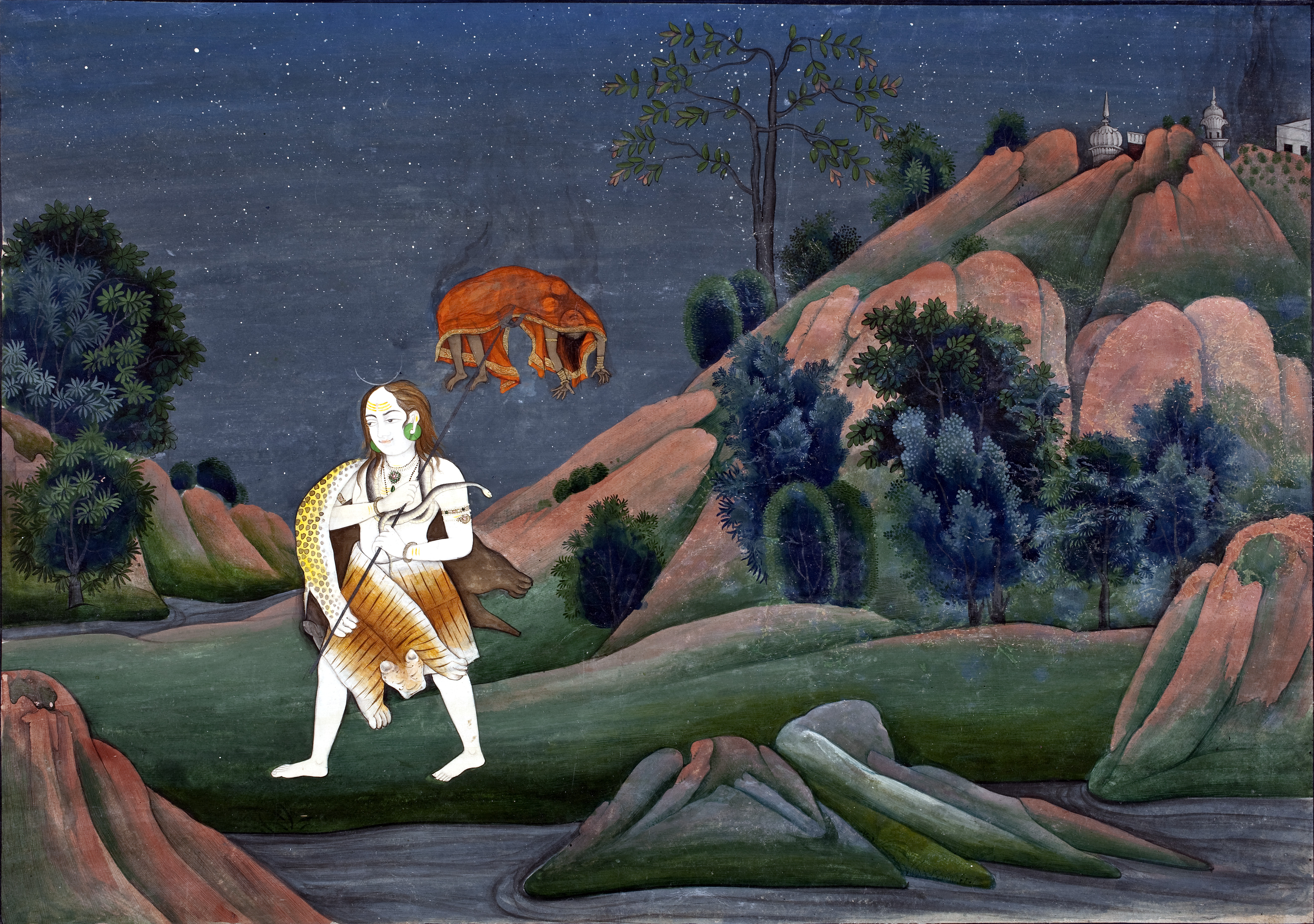 Shiva Carrying Sati on His Trident, circa 1800, India, Himachal Pradesh, Kangra, South Asia from the Los Angeles County Museum of Art, Painting; Watercolor, Opaque watercolor and gold on paper, 29.21 x 40.64 cm